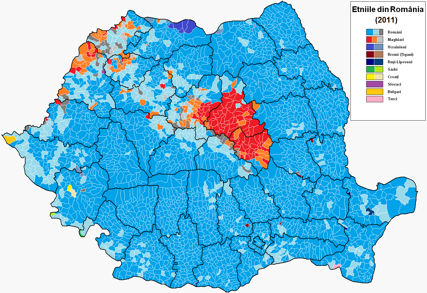 Detailed ethnic map of Romania (according to the 2011 census), by the proportion of the majority ethnicity.